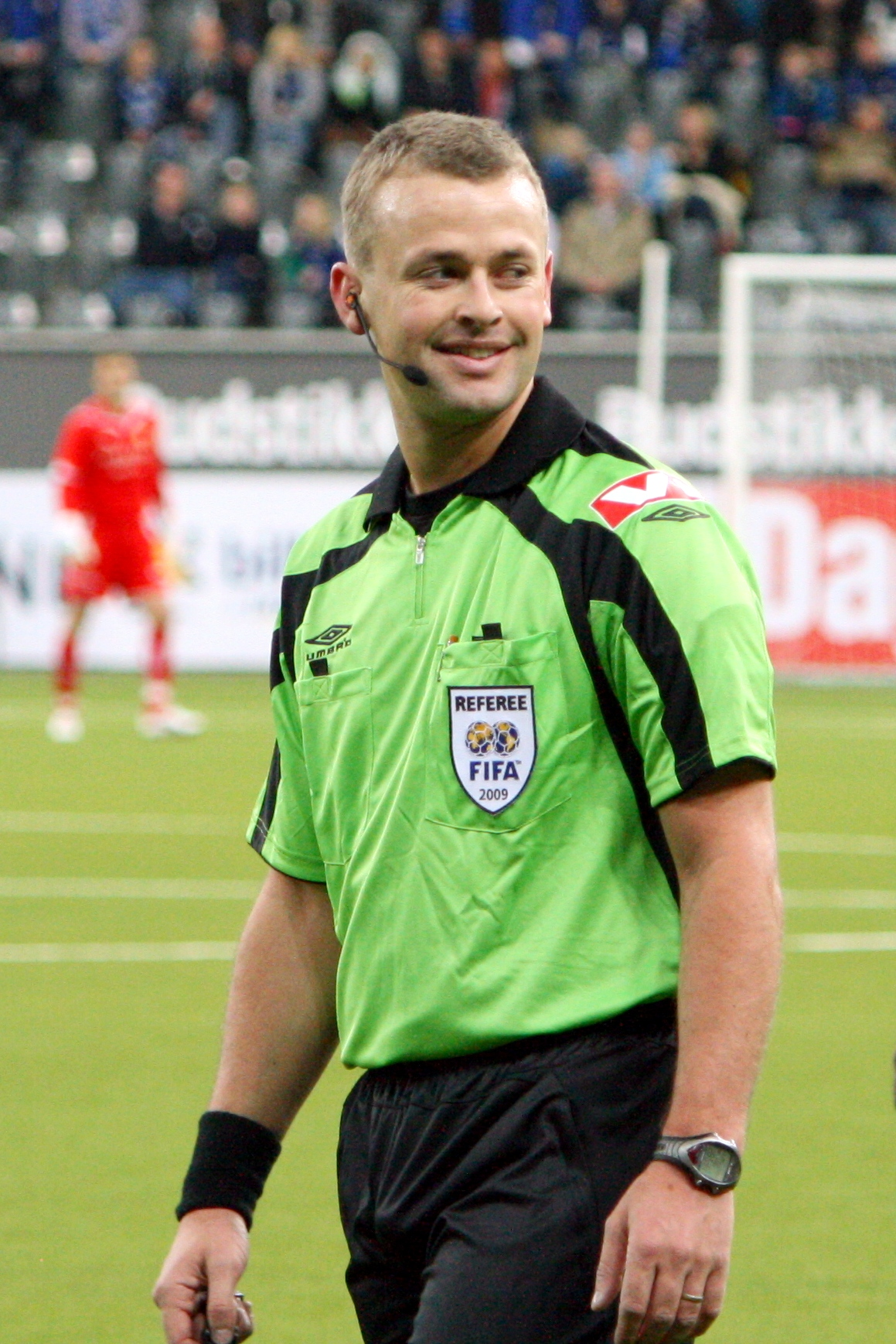 Norwegian football referee Svein Oddvar Moen.